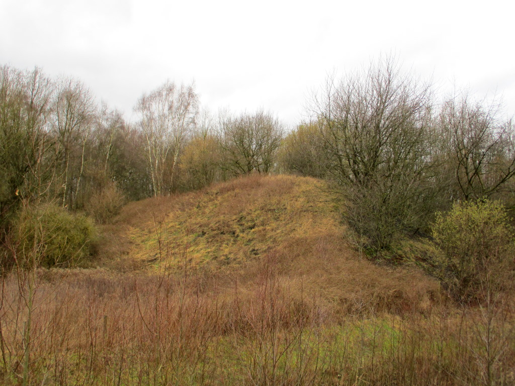 Remains of the railroad embankment of former coal mine Henriette in Dortmund-Eichlinghofen, near the Rüpingsbach.